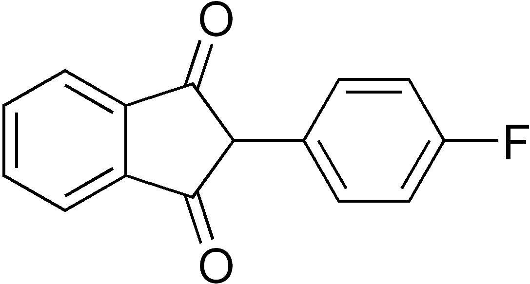 chemical structure of fluindione